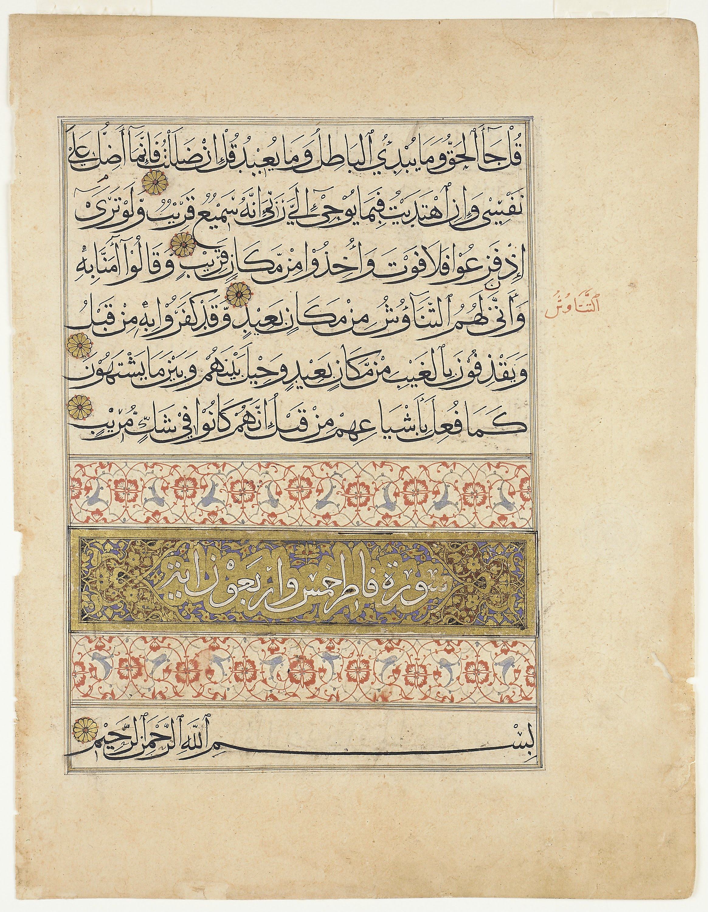 Folio from a Koran Ink, opaque watercolor, and gold on paper H: 41.1 W: 31.6 cm Egypt